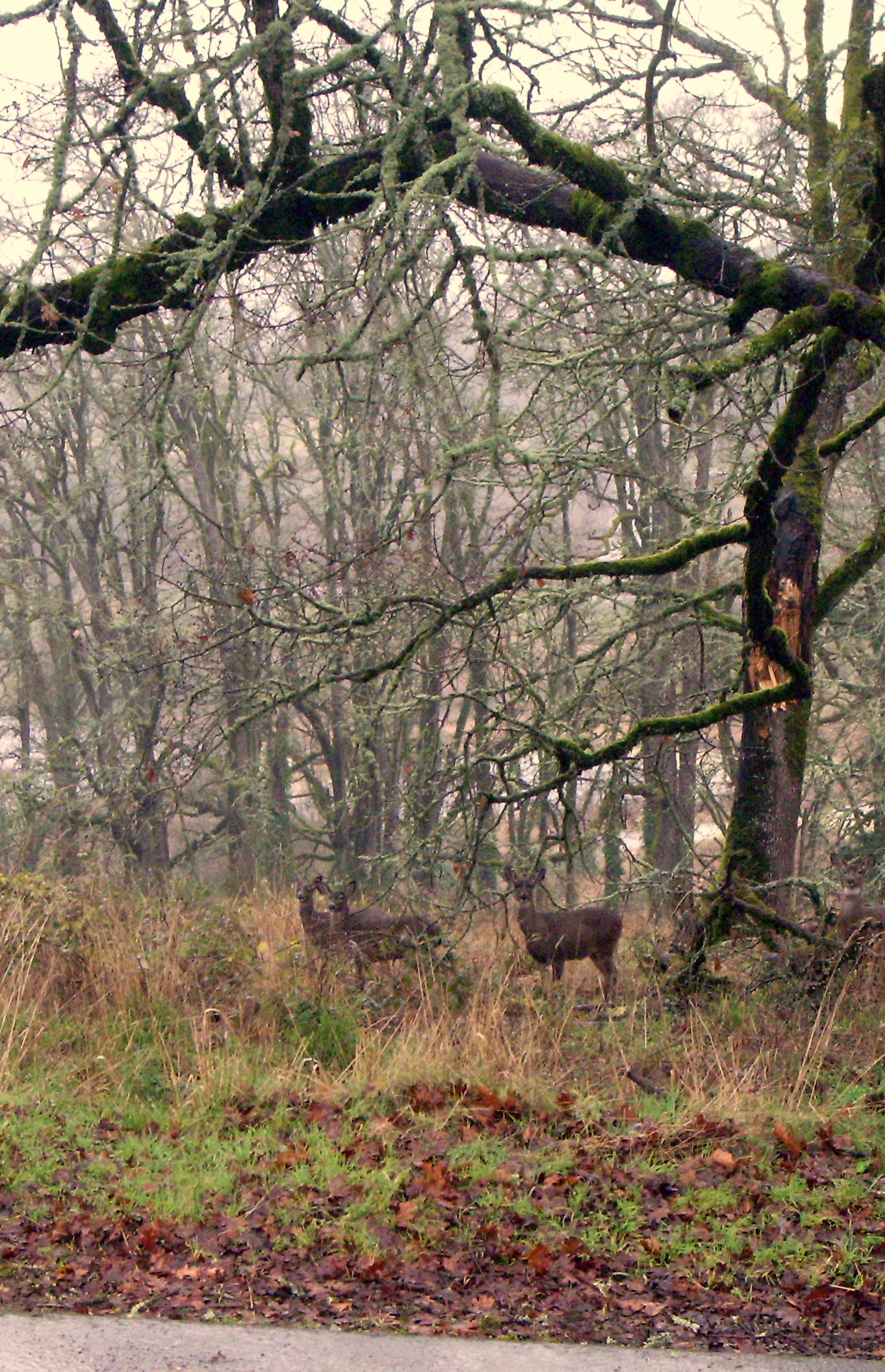 Deer just outside the conifer garden at the Oregon Garden